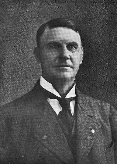 John H Parks, early mercantilist from Crystal Falls MI